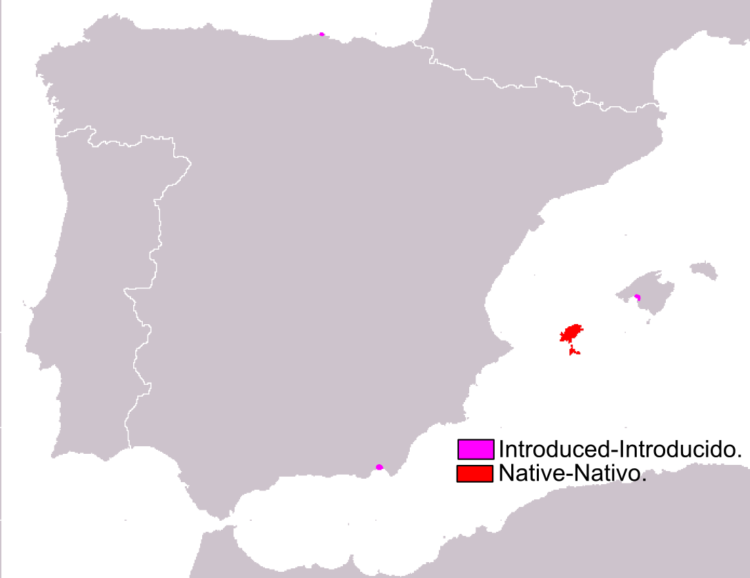 Podarcis pityusensis range map.